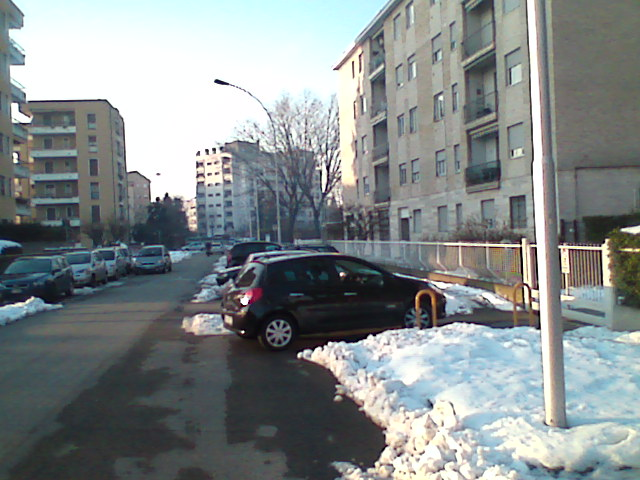 puglia road in monza